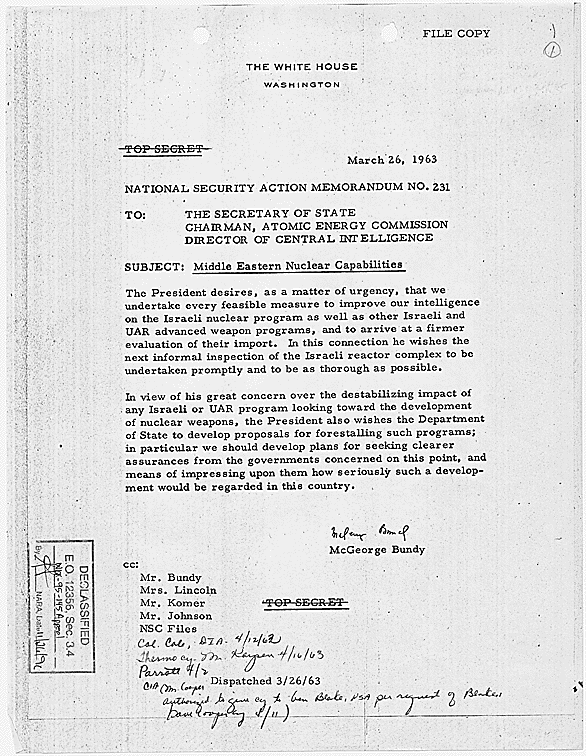 National Security Action Memorandum No. 231 Middle Eastern Nuclear Capabilities, 03/26/1963